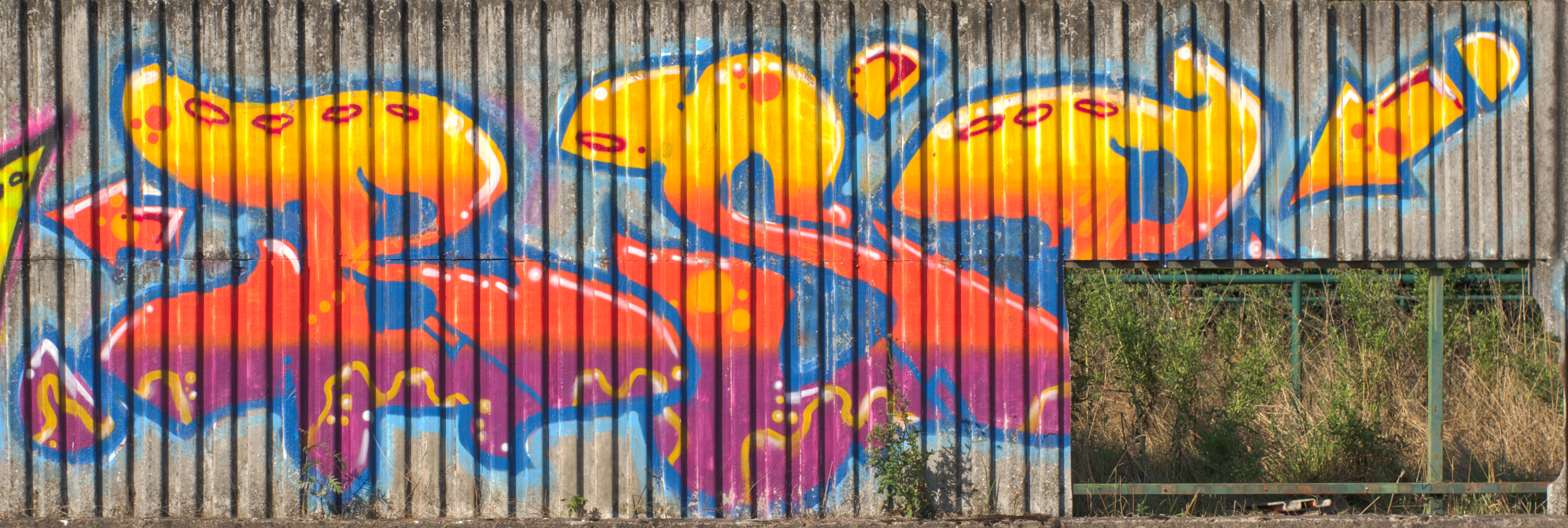 Graffito by an unknown sprayer in Bayreuth, Germany